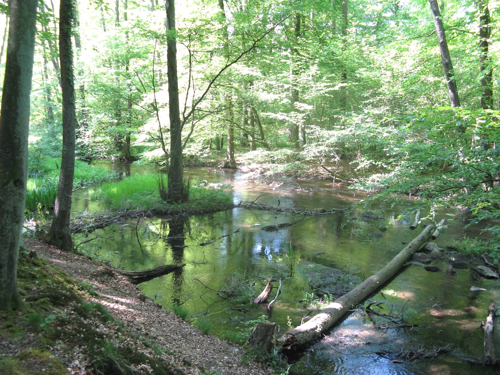 Schaale river in a forest near Kogel, Mecklenburg-Vorpommern, Germany